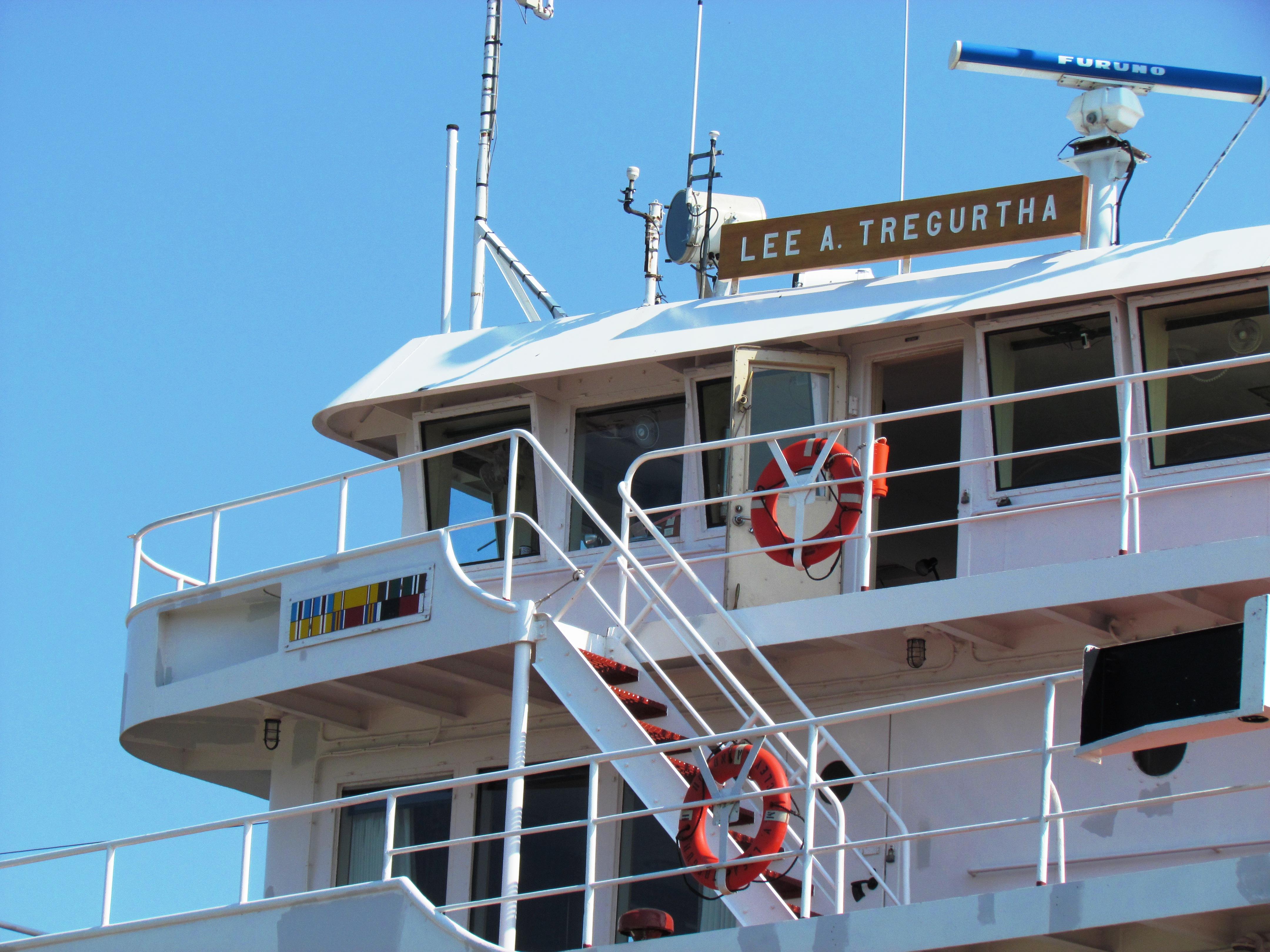 SAULT SAINTE MARIE, Mich. -- The Lee A. Tregurtha is one of a handful of vessels still operating on the Great Lakes that saw service during World War Two. After her launch as a tanker in 1942, she was commissioned by the U.S. Navy and served in both the Atlantic and Pacific Fleet as the USS Chiwawa carrying fuel. Decommissioned in 1946 she spent several years in private service as a tanker. In 1961, after being lengthened and converted to haul ore she made her debut on the Great Lakes. The Lee A. Tregurtha still proudly wears her campaign ribbons. (U.S. Army Corps of Engineers photography by Michelle Hill)